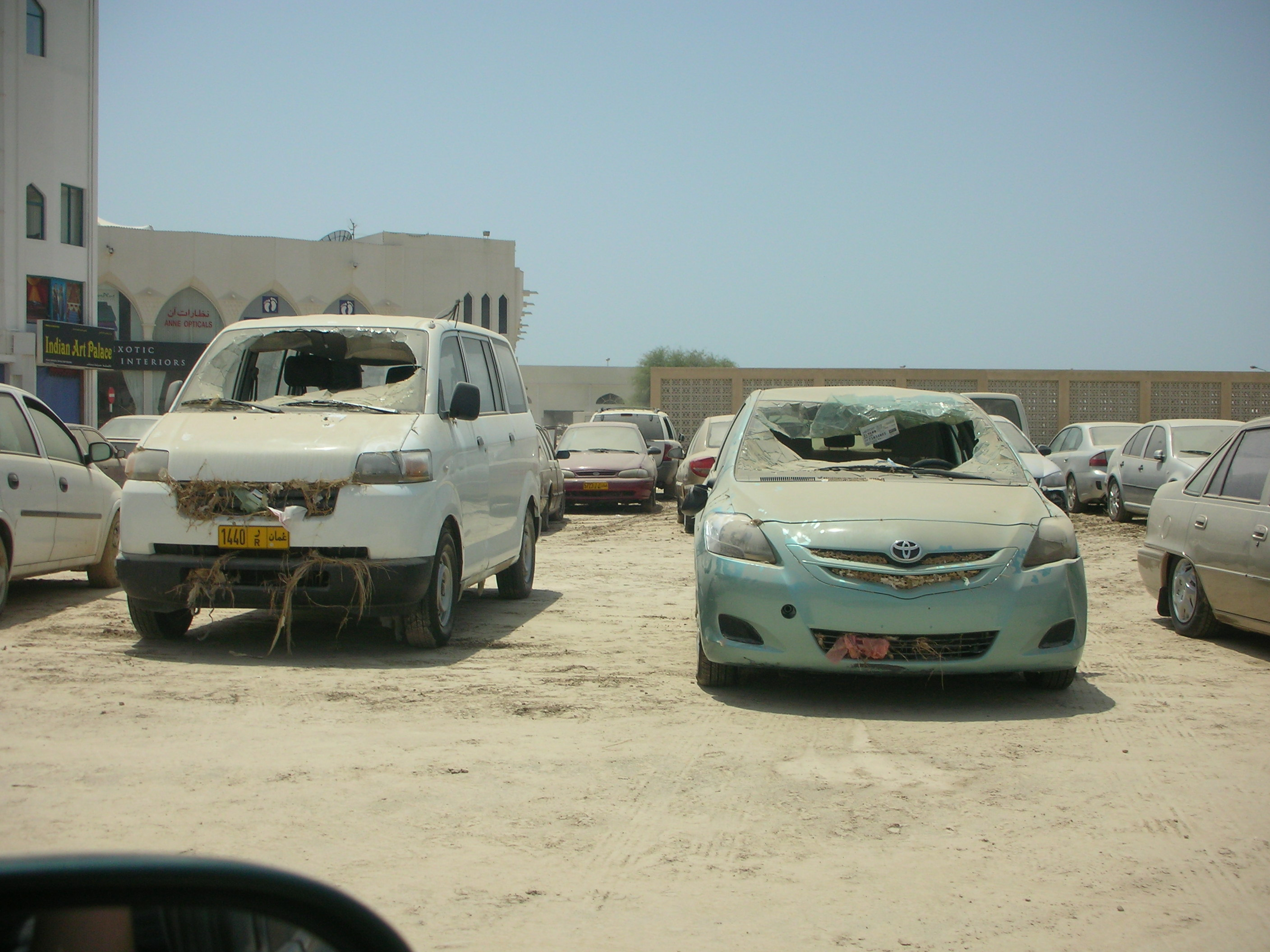 Taken four days after Gonu struck